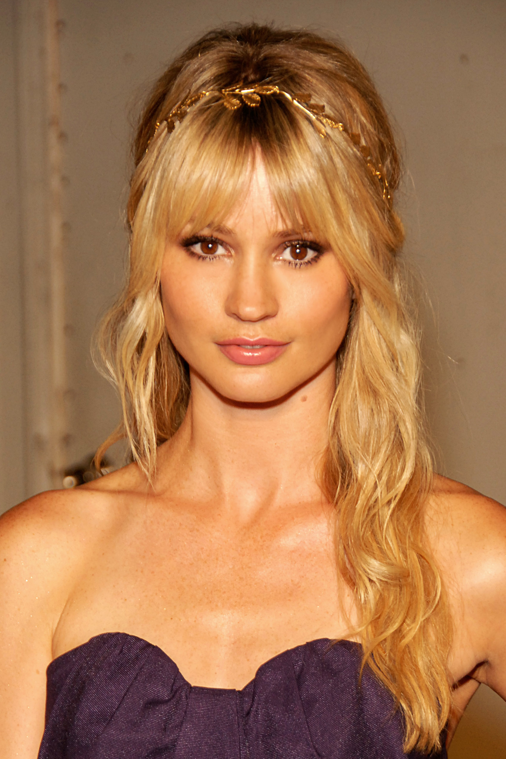 Cameron Richardson attending Maxim Magazine's 10th Annual Hot 100 Celebration, Santa Monica, CA on May 13, 2009 - Photo by Glenn Francis of